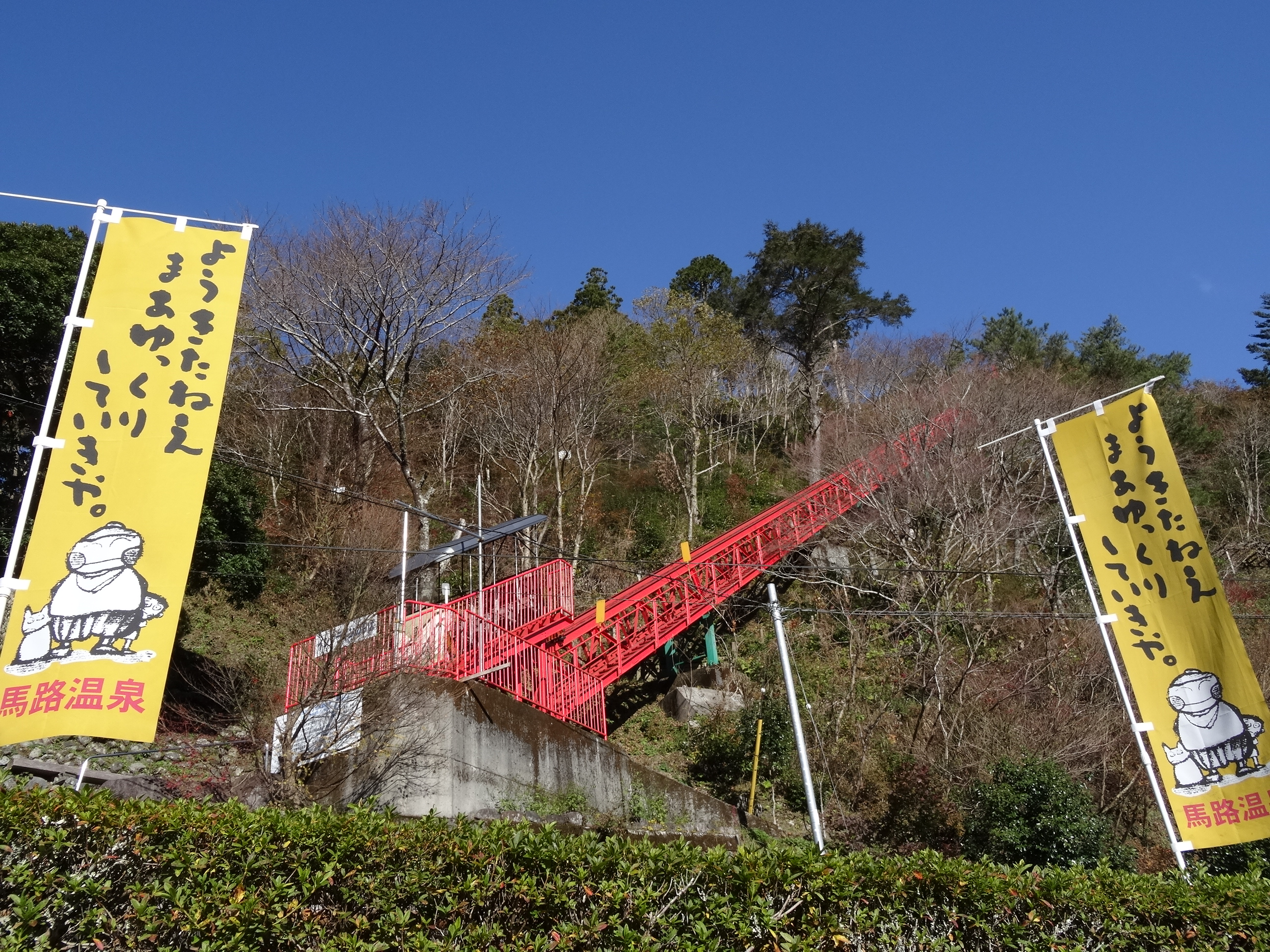 Umaji incline in Umaji, Kochi, Japan